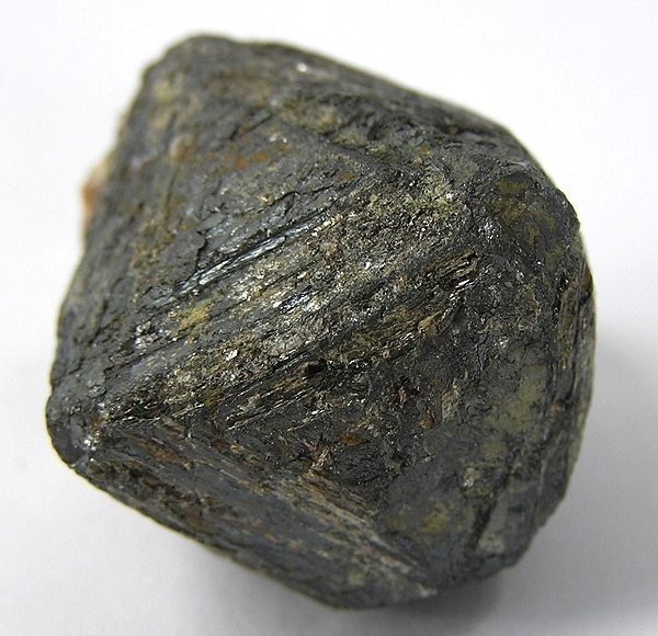 Hematite, Magnetite Locality: Milagros, La Rioja, Argentina (Locality at ) Size: 2.6 x 2.5 x 2.3 cm. Hematite has pseudomorphed a perfectly-formed octahedral crystal of magnetite - with interesting terraced epitaxial faces.